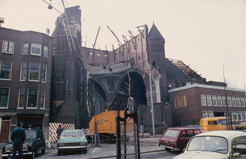 Sloop Sint-Barbarakerk, Tamboerstraat.